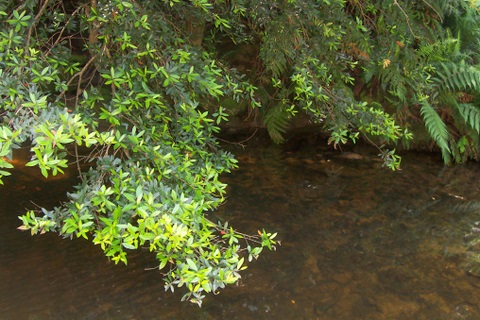 Elaeocarpus holopetalus, Leura, Blue Mountains National Park